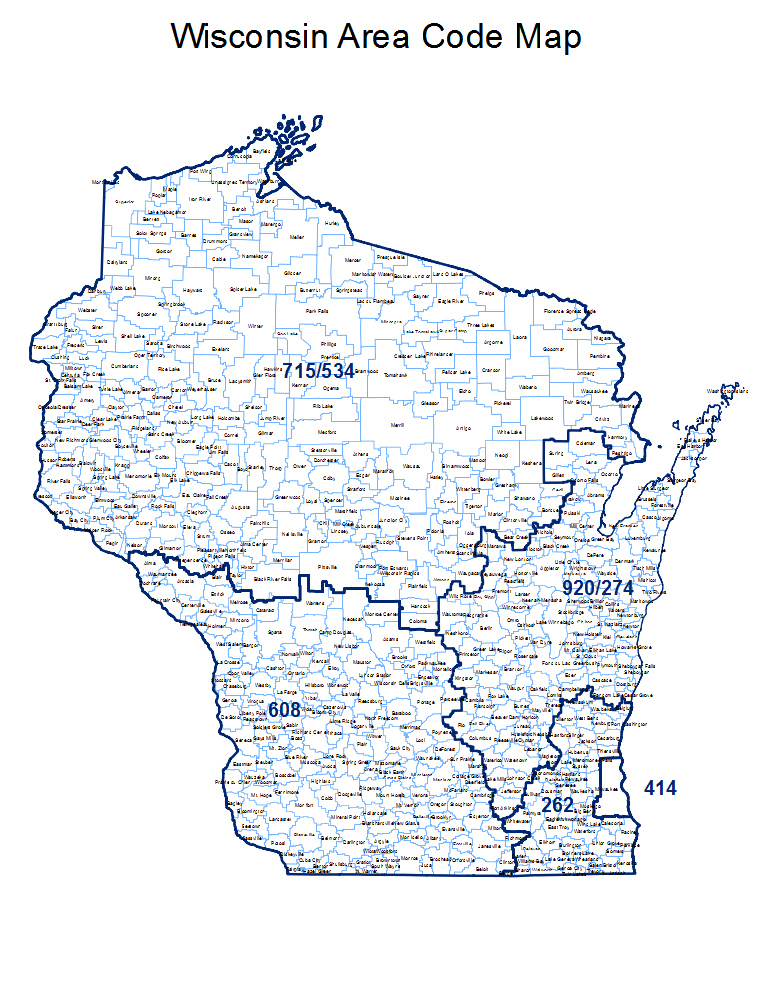 The area codes currently used or planned for use in Wisconsin